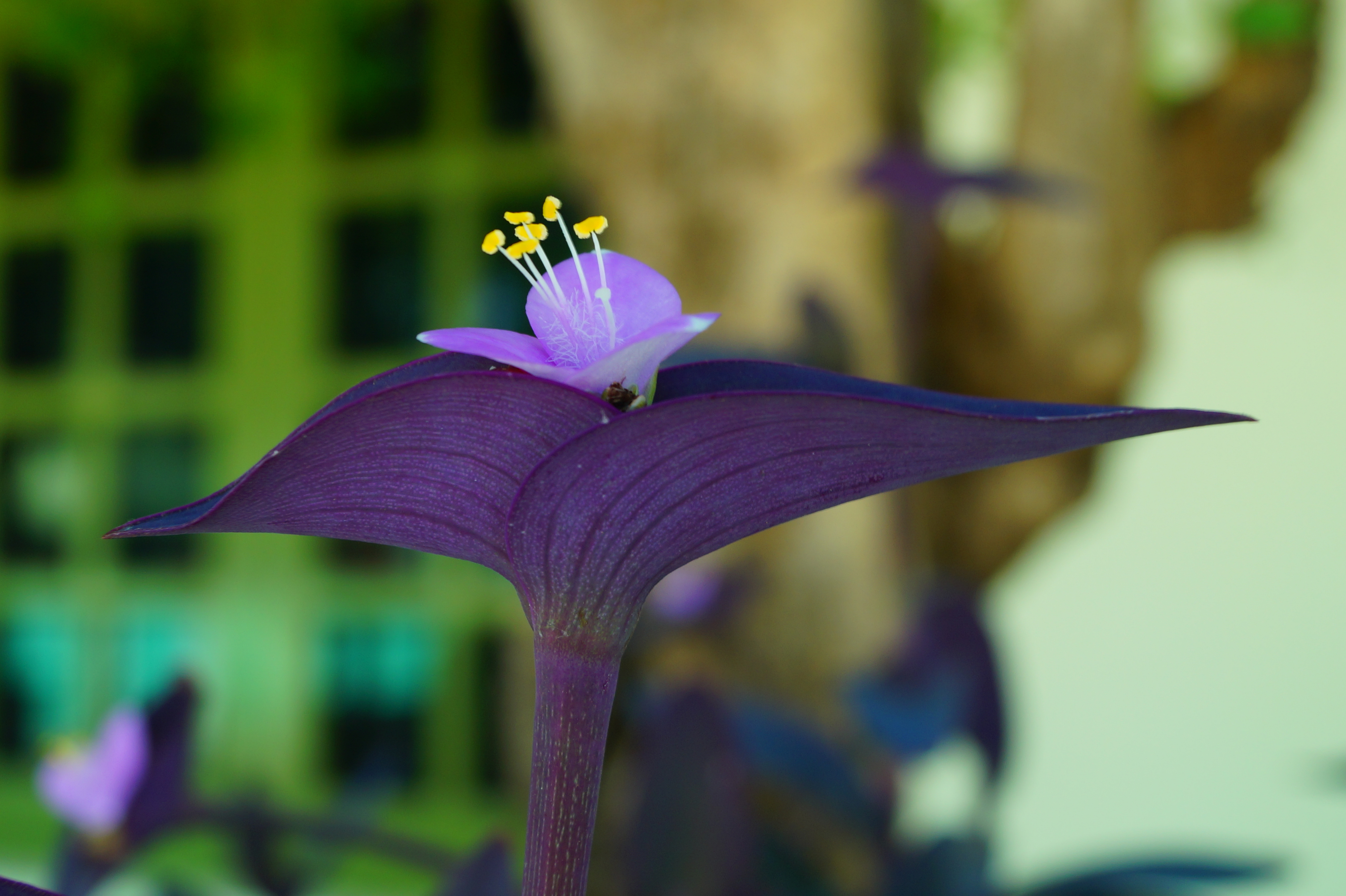 Purple heart leaf